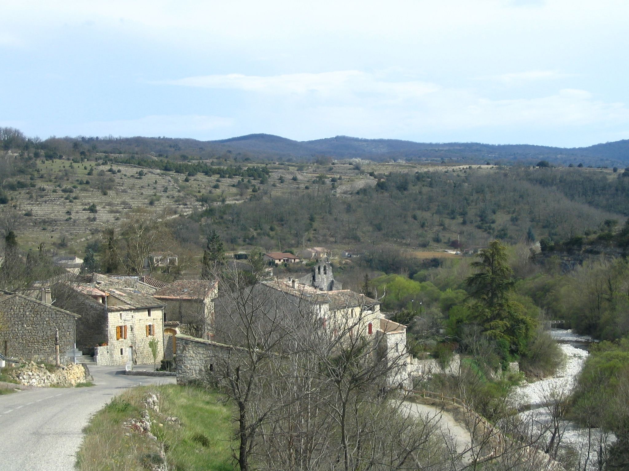 Village of Saint-Maurice-d'Ibie in the Ibie valley in the Ardèche region